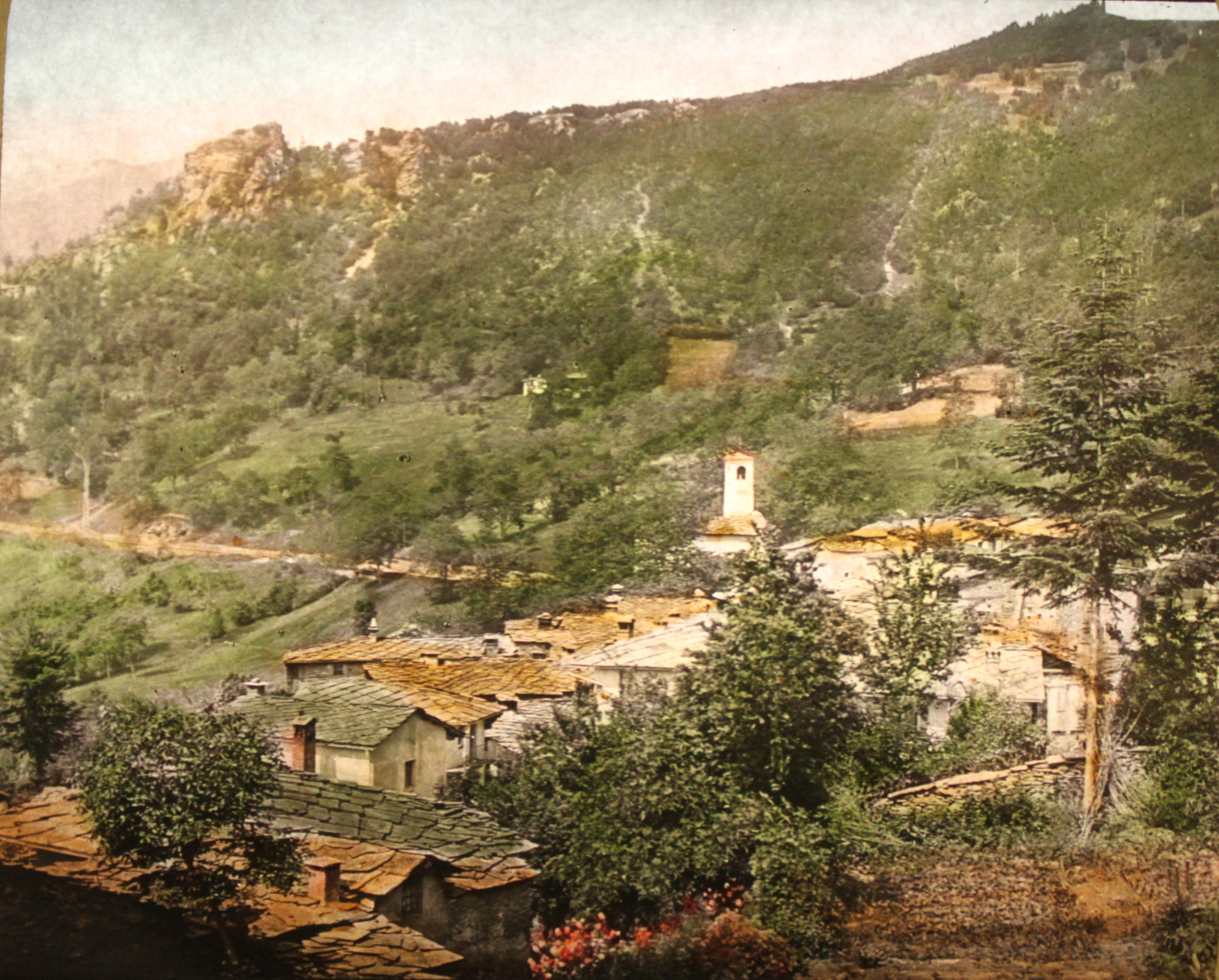 Scene of [Waldensian] victory above Rora